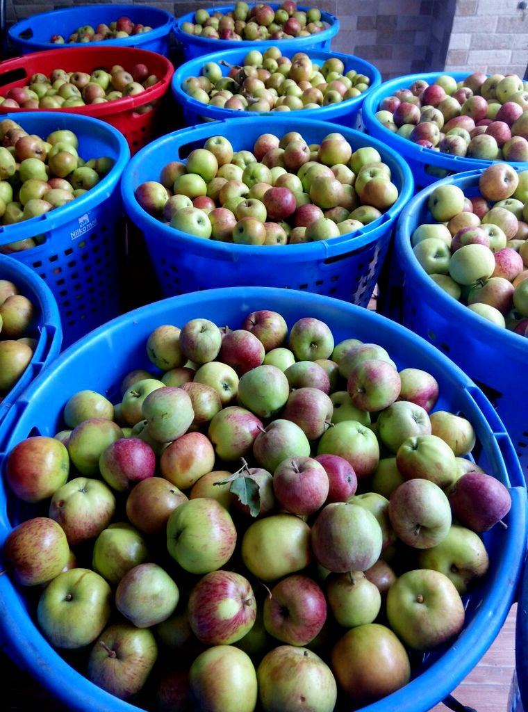 Apples after harvest in India